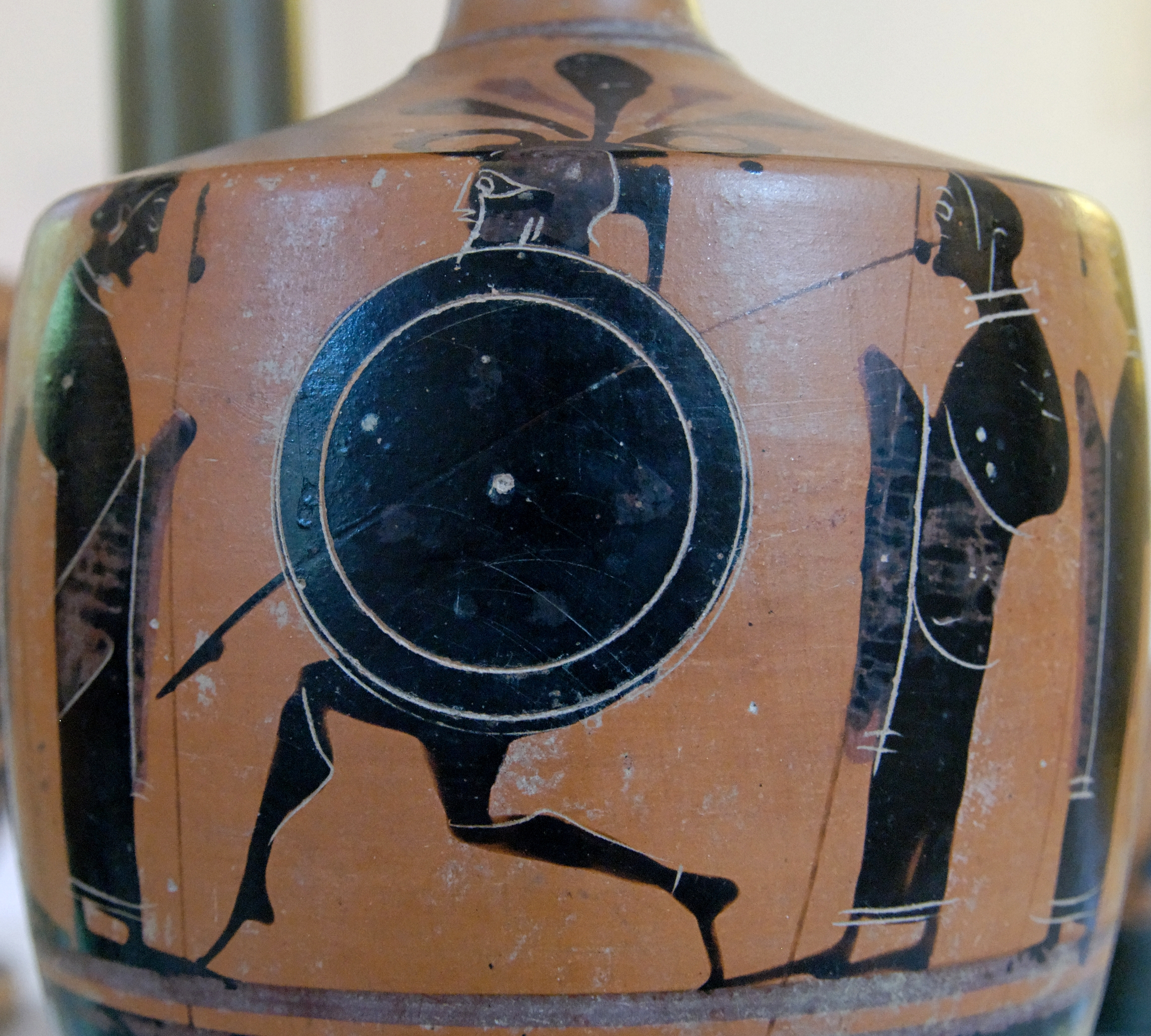 Warrior running between draped figures with spears (hoplitodromia?). Attic black-figure lekythos, ca. 520 BC.